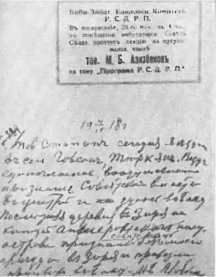 Letter from Azizbekov about meetings in Turkan and Zira.